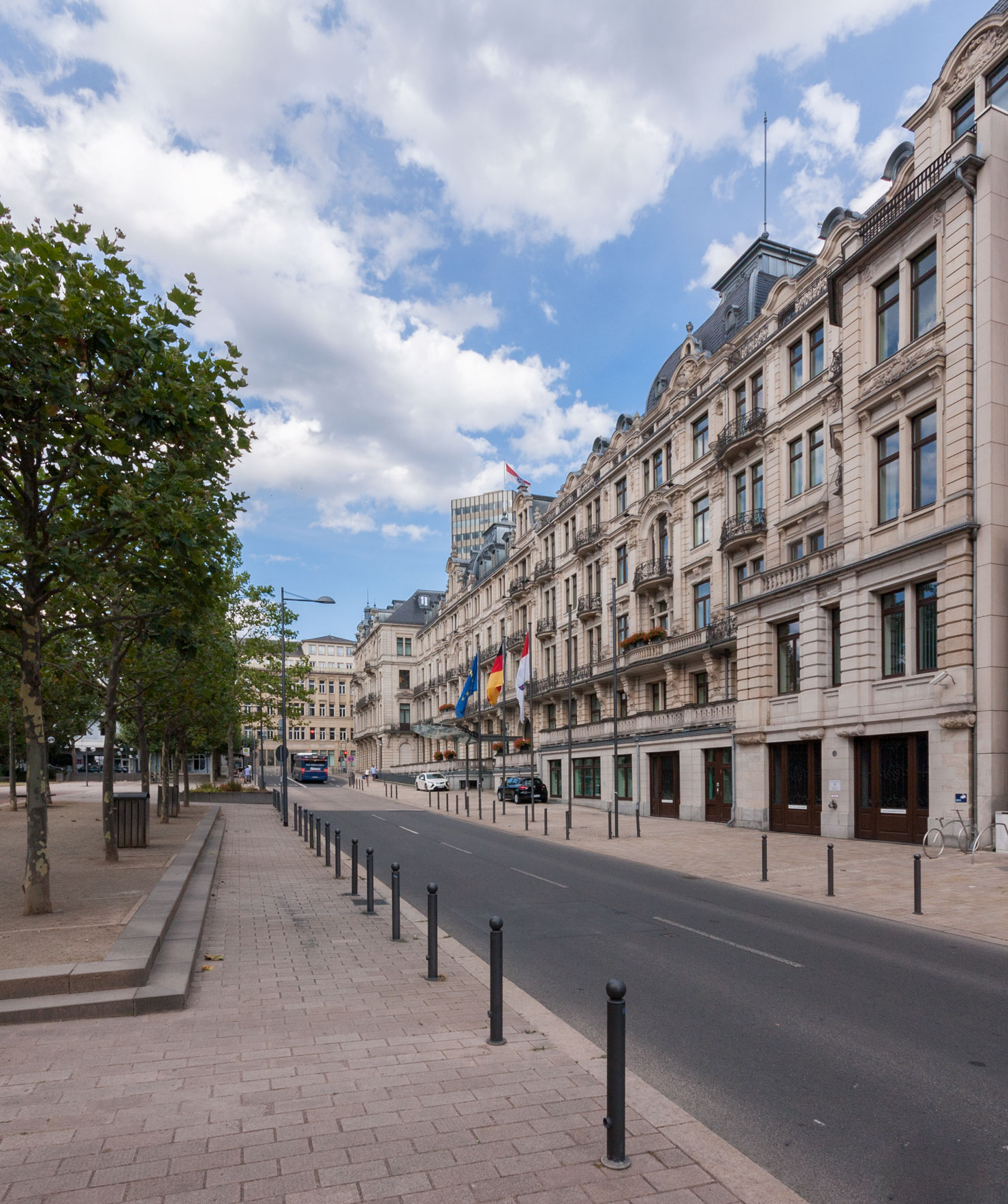 The Hessische Staatskanzlei in the former Hotel Rose at the Kranzplatz in Wiesbaden